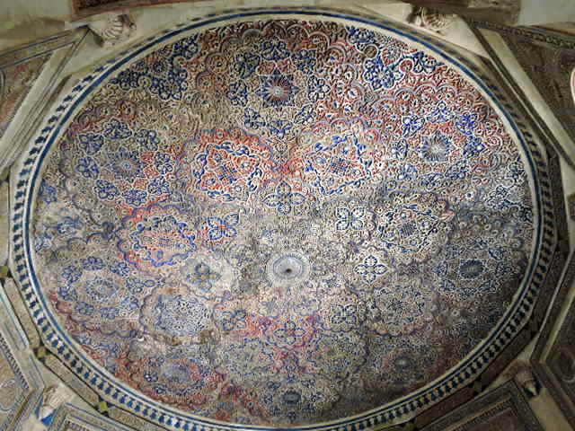 Interior decoration on the roof of tomb of Jamali kmali ,Mehrauli ,Archeological Park, Delhi